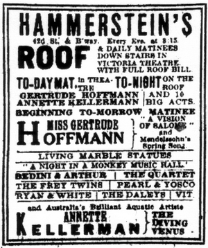 Advertisement for Hammersteins Victoria Theatre from the New York Times, 18 July 1909